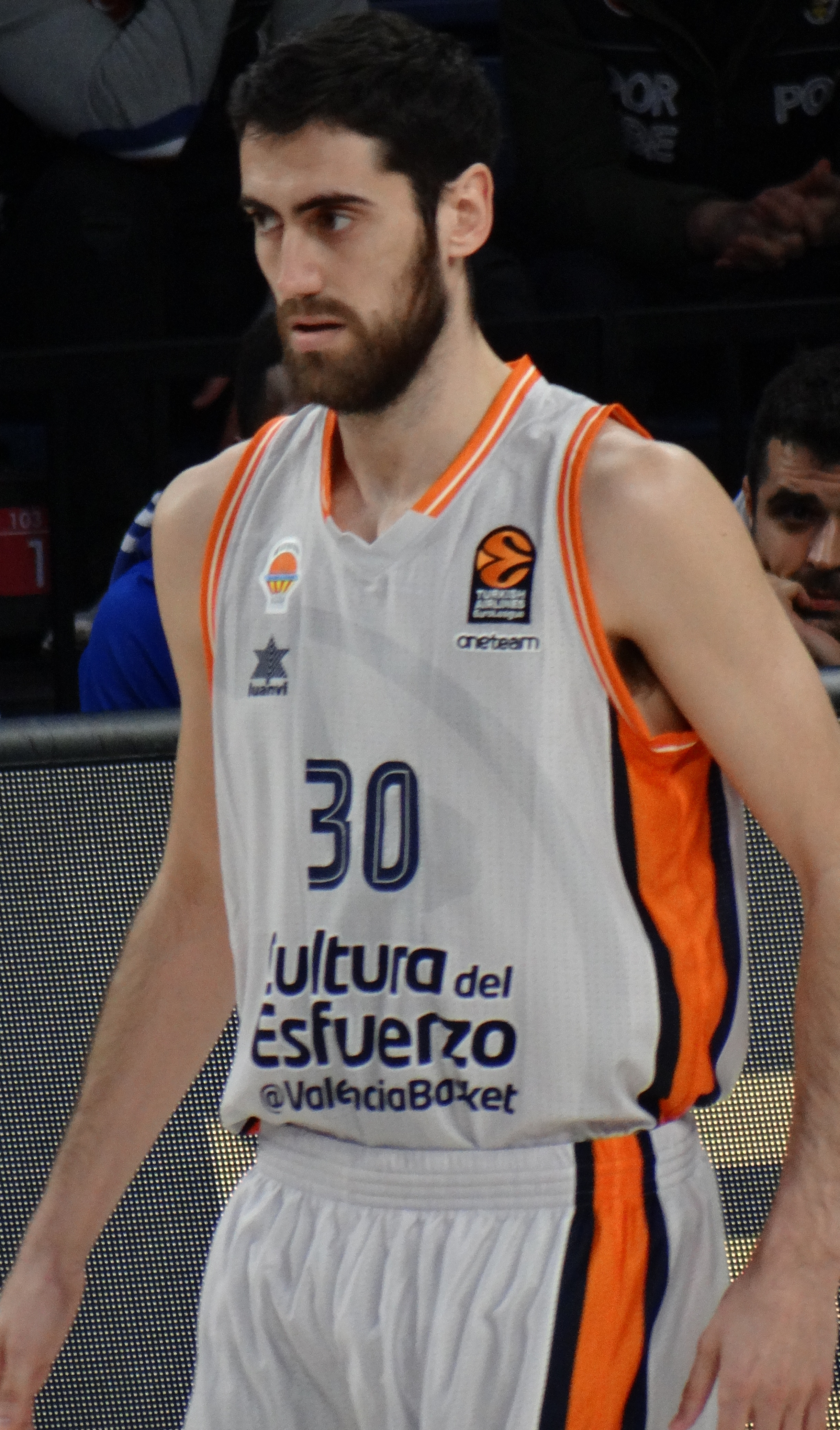 Joan Sastre 30 Valencia Basket EuroLeague 20180201